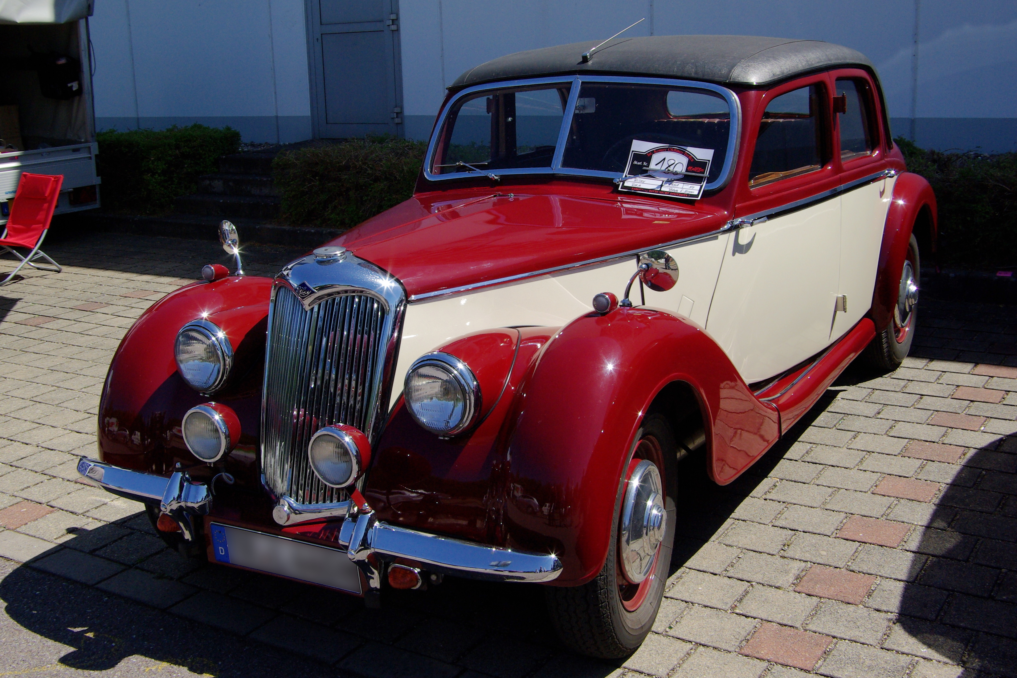 Riley RMA, Baujahr 1951, 54 PS, fotgrafiert/photographed at "Internationales Konzer Oldtimer-Treffen", 18. Juli 2010